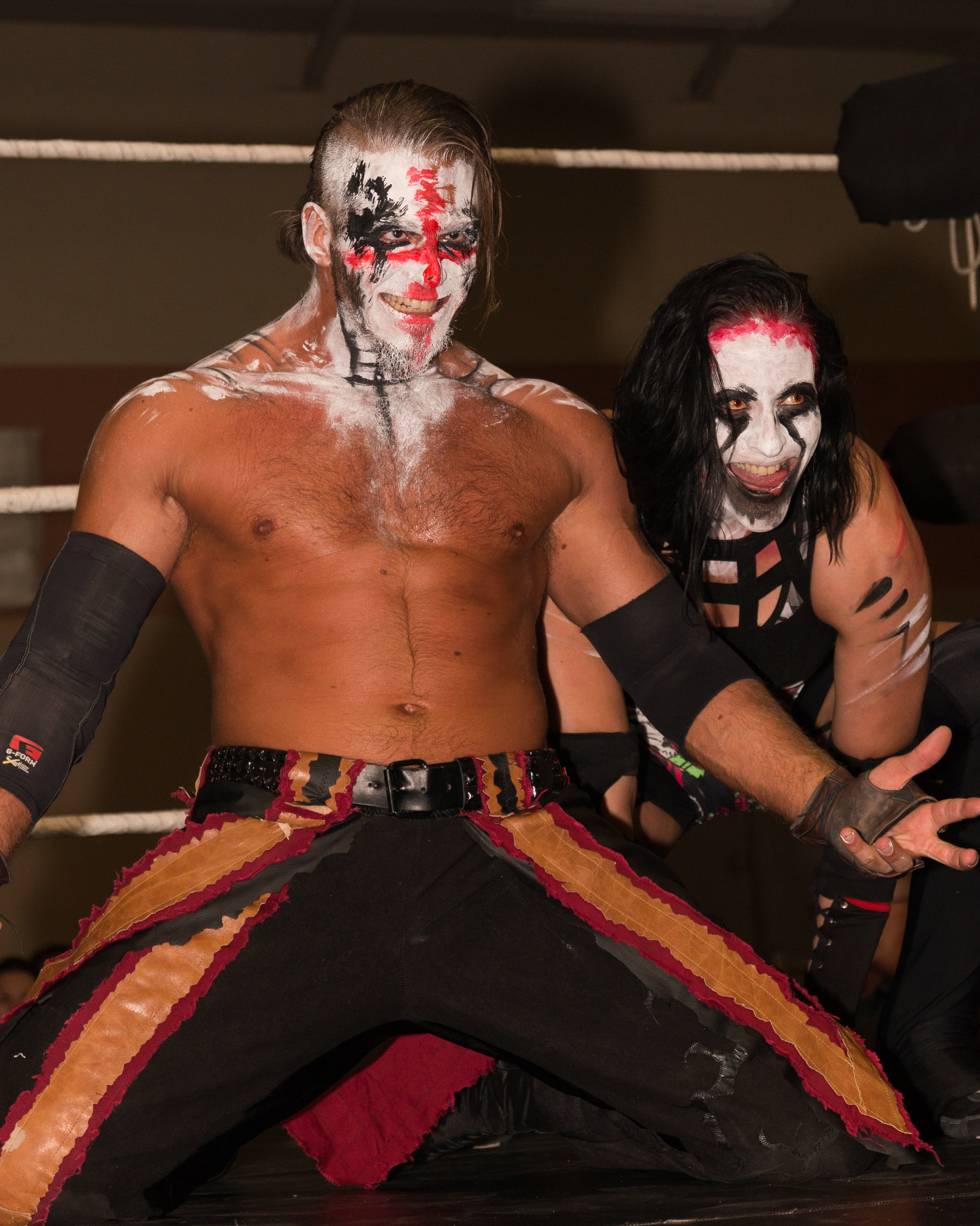 Crazzy Steve and Rosemary posing in the ring pre-match at an independent show in Angus, ON